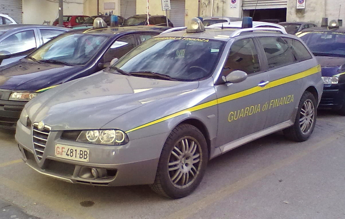 Alfa 156 Crosswagon of Finanza